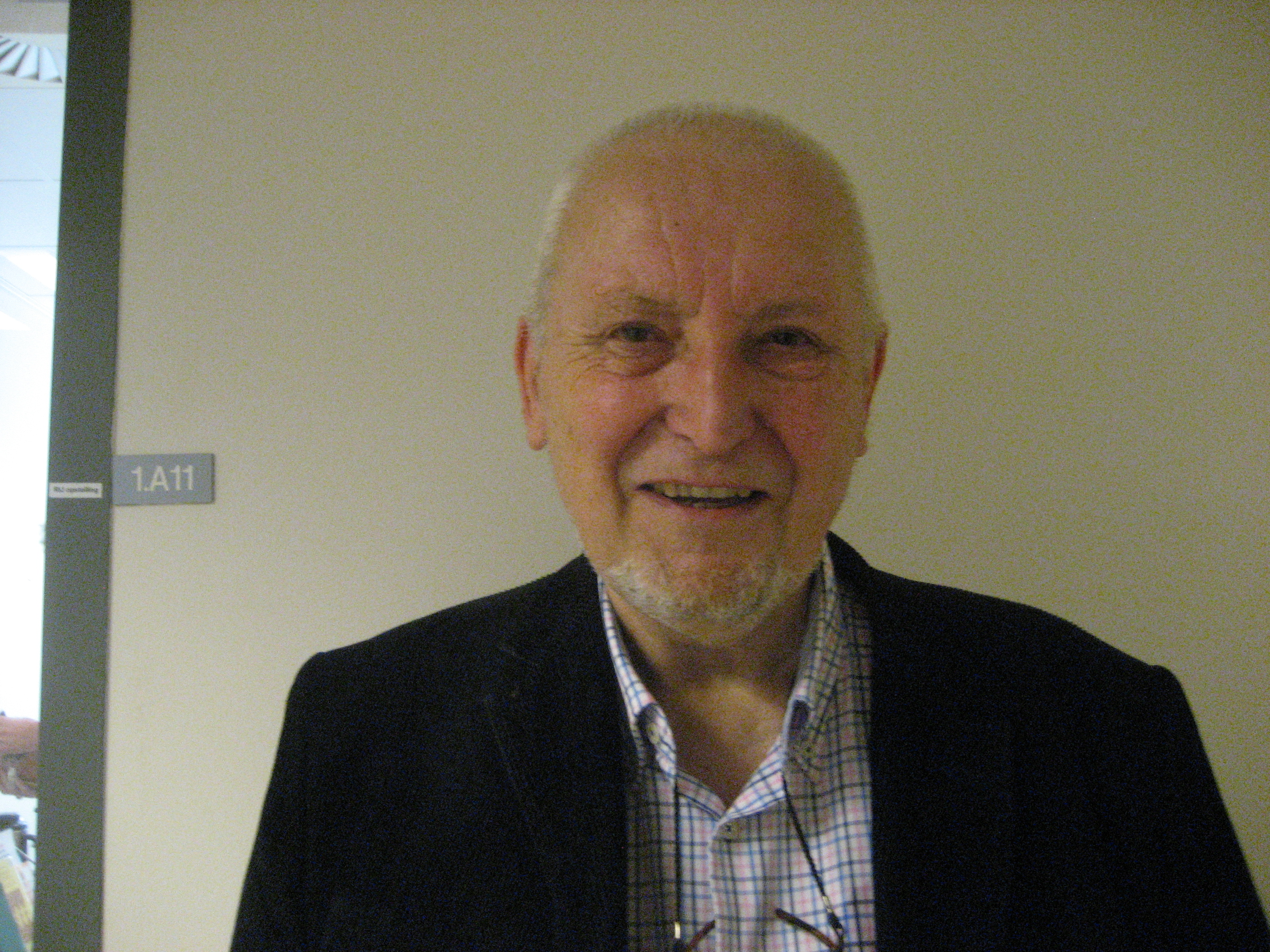 Paul Richards (*1945). Seminar Mende/Hofstra at African Studies Centre, Leiden (The Netherlands)